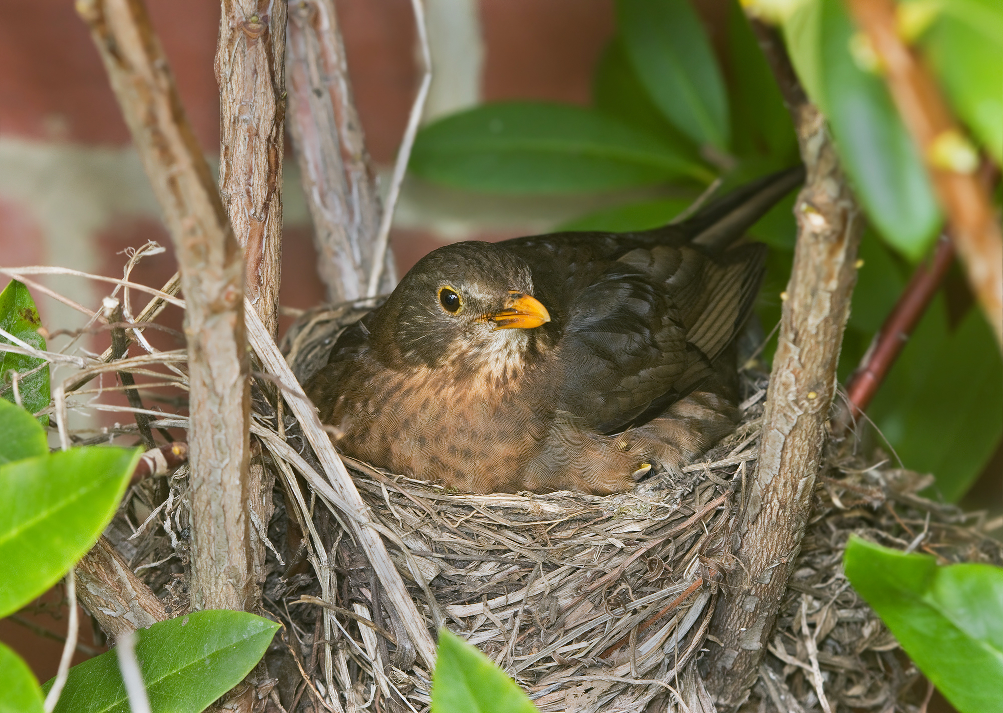 Common Blackbird (Turdus merula), Austin's Ferry, Tasmania, Australia